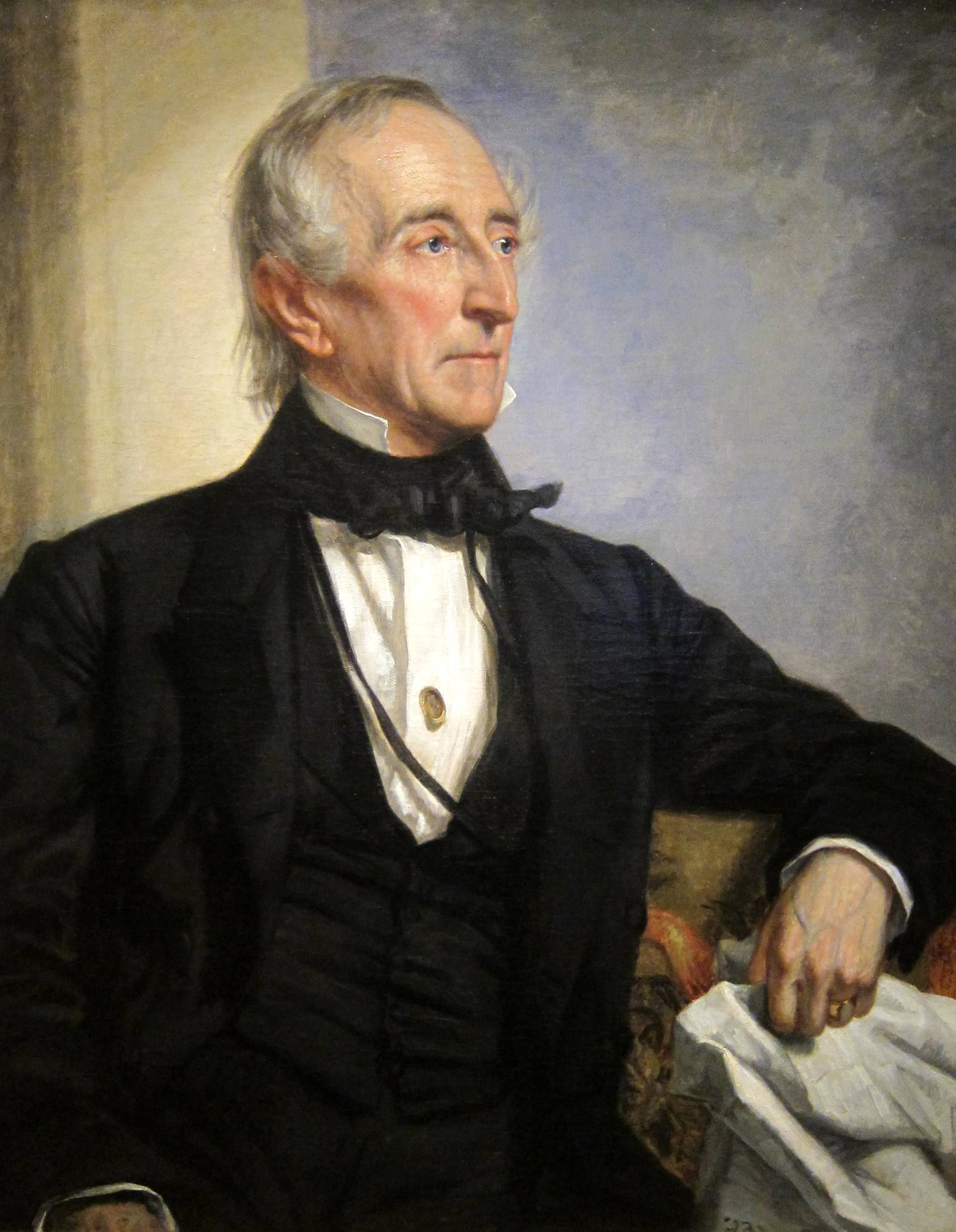 Transfer from the National Museum of American Art; gift of Friends of the National Institute